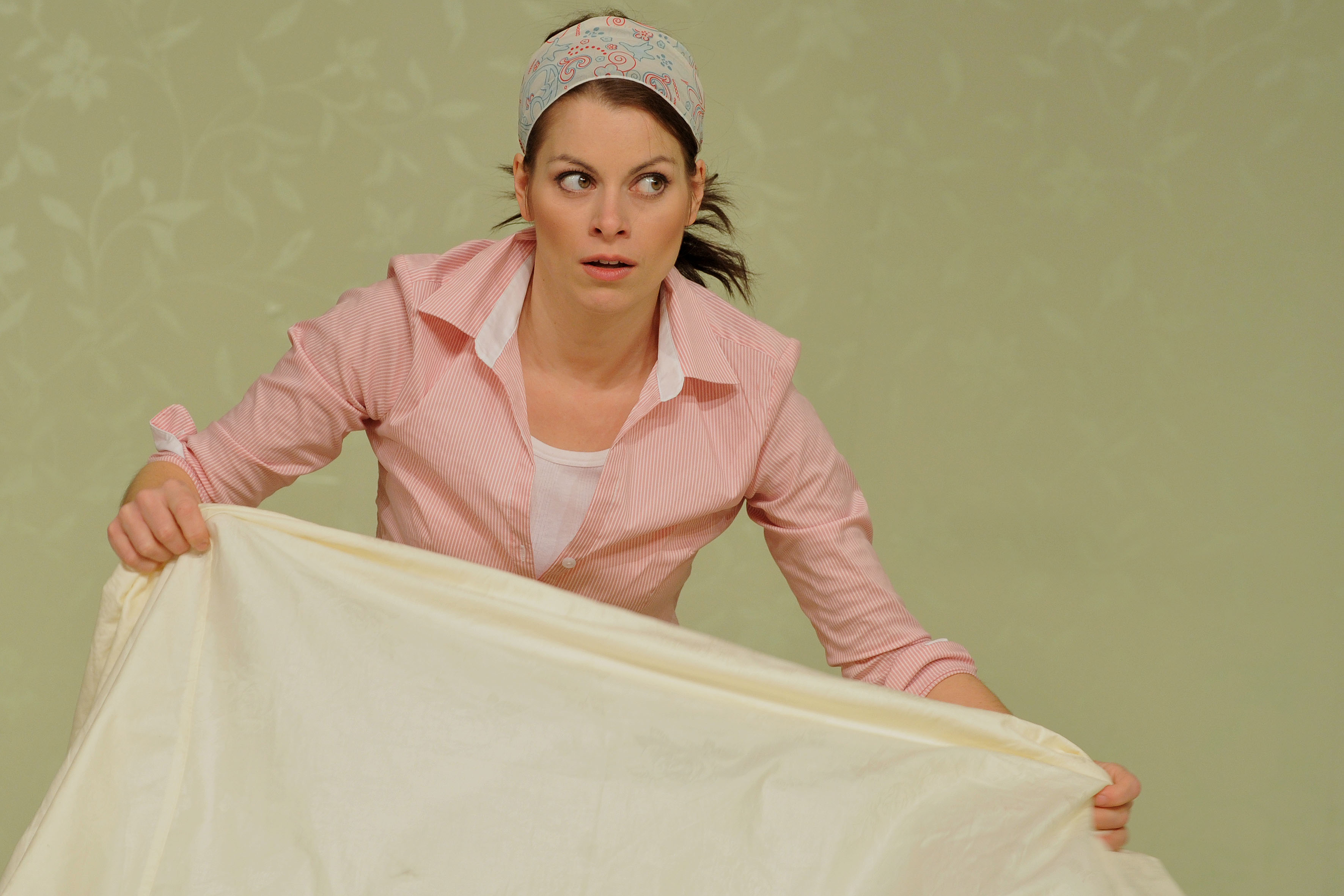 Hana Holišová